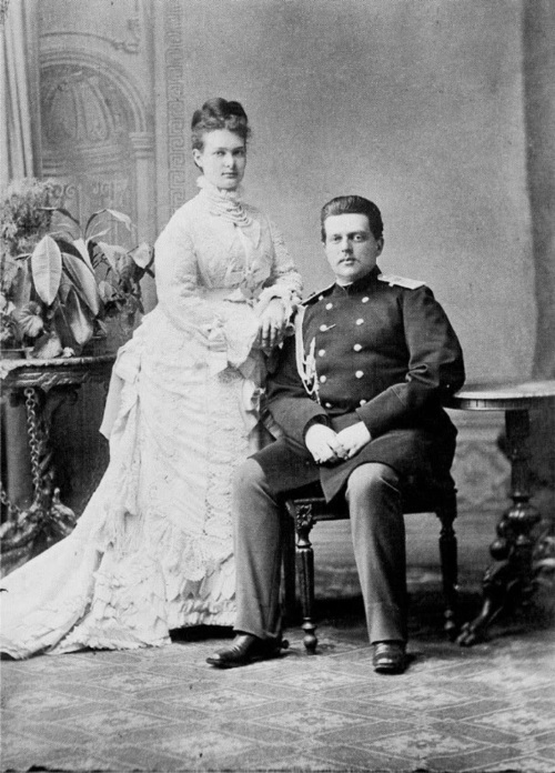 Gran Duke Vladimir Alexandrovich and his fiance Duchess Marie of Mecklenburg Schwerin. Engagement photograph